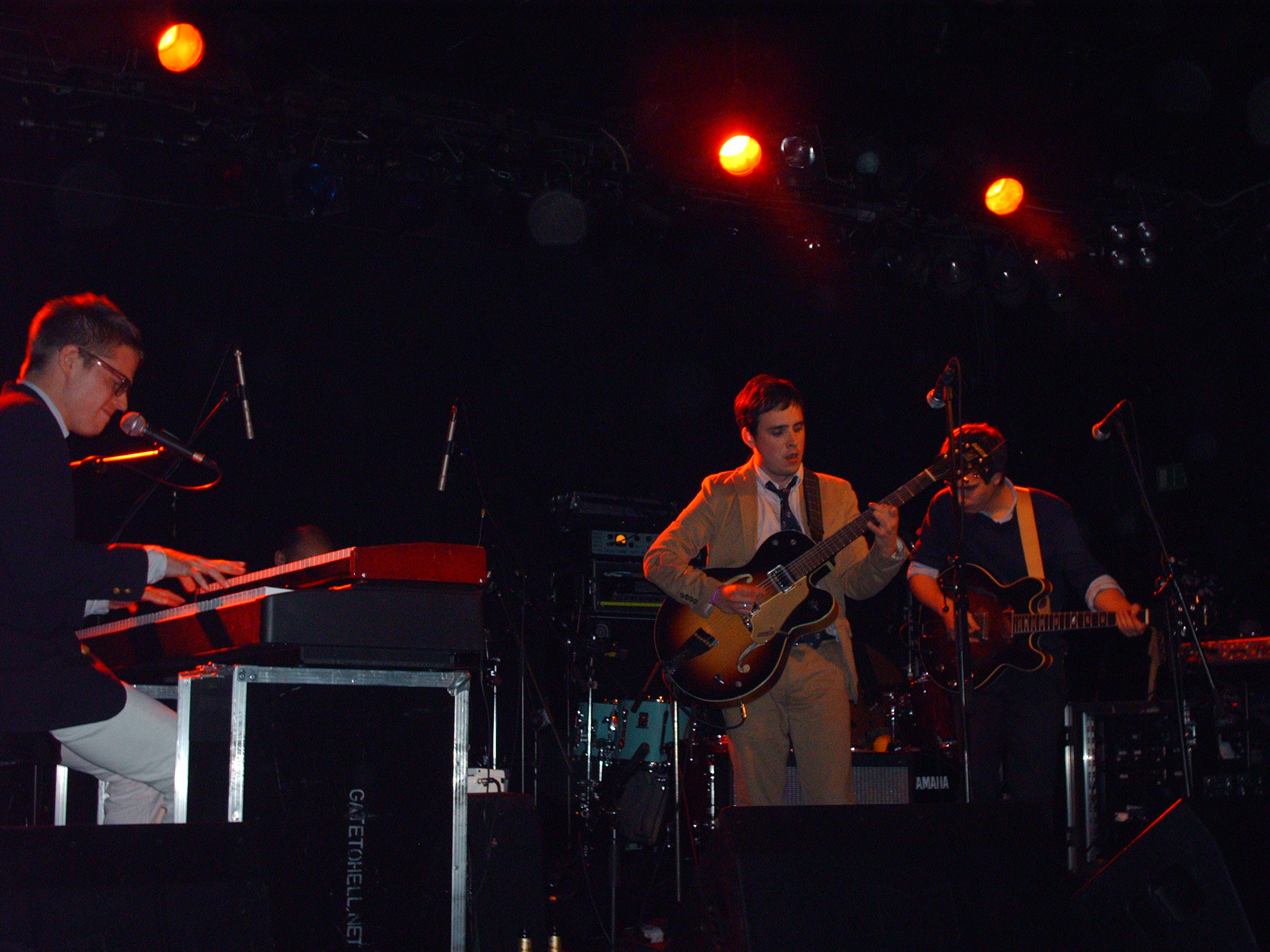 White Rabbits, Frankfurt, Germany check usage